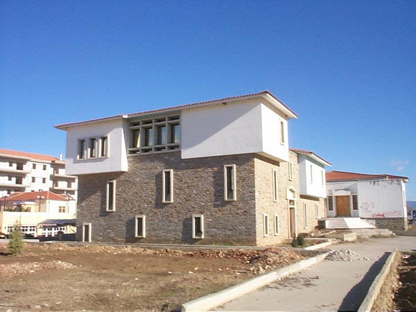 View from outside1, image from the Folklore Museum, Drama, East Macedonia, Greece